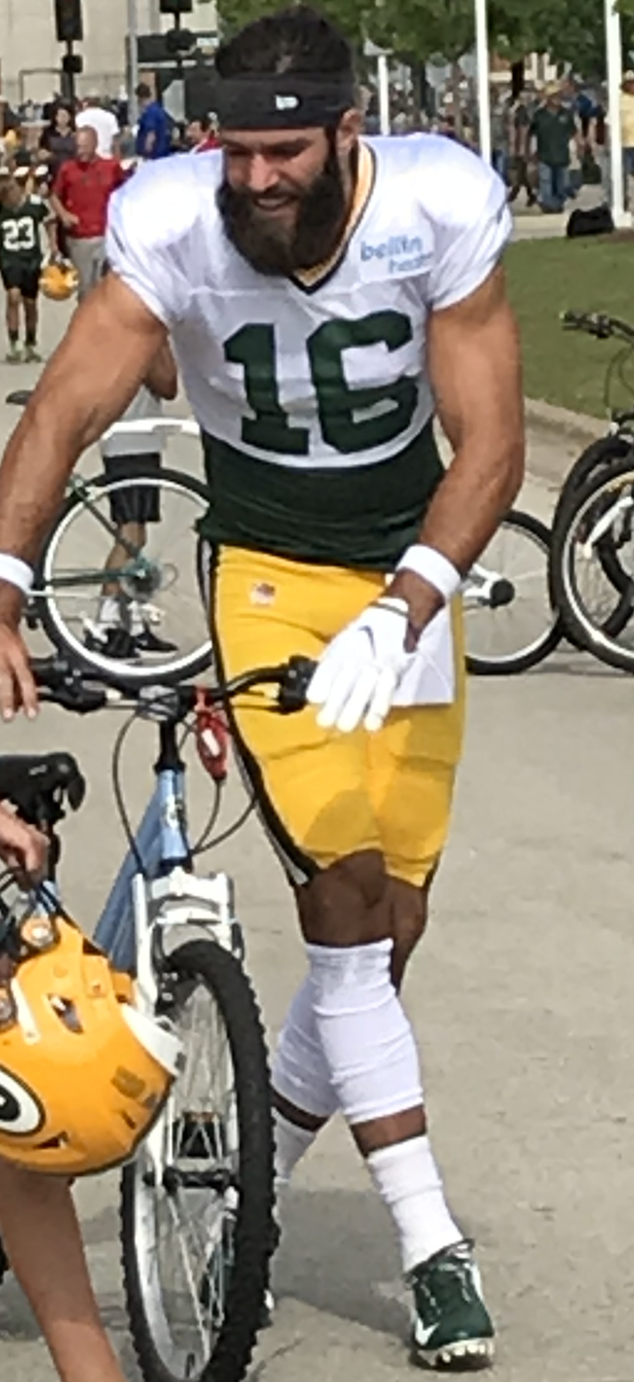 Green Bay Packers wide receiver Jake Kumerow before a training camp practice on August 13, 2019.